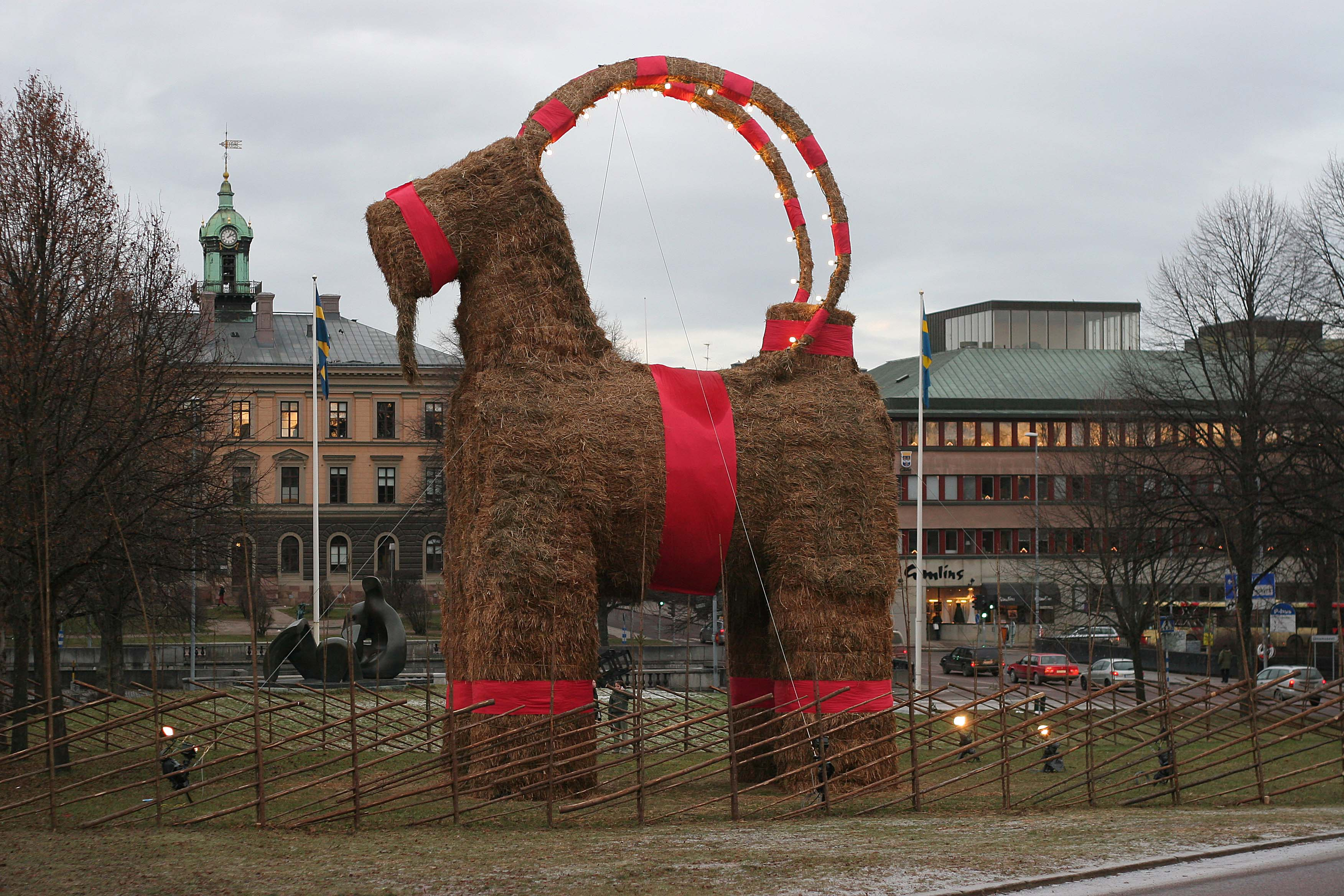 Taken by user:Stefan 23 December 2006. Stefan 14:47, 23 December 2006 (UTC)